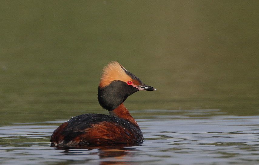 One of my favourite Scottish birds. In Scotland they favour kettle lochans/lochs with fringing sedges and good populations of aquatic insects and small fish in the drier eastern Highlands. This image was taken in Speyside.